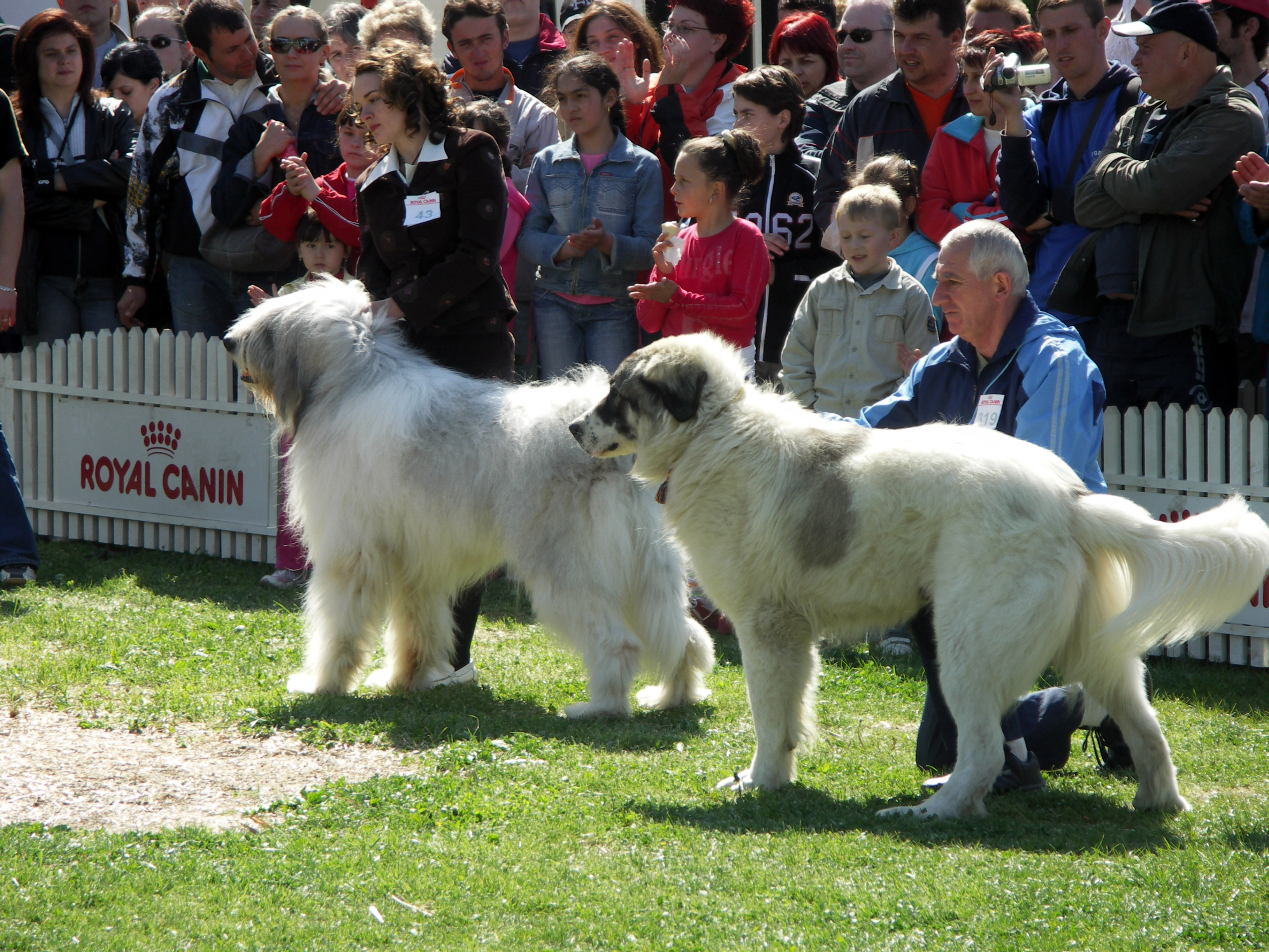 Beautiful Romanian shepherd dogs, the one on the left is Mioritic Romanian sheepdog and the one on the right is Bucovina Romanian sheepdog.